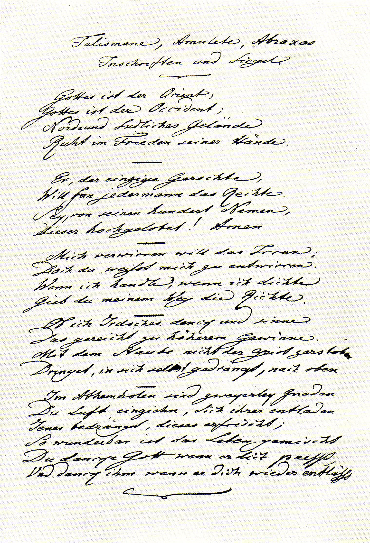 The poem Talismans from Goethe’s fair copy of his cycle of poems West–Eastern Diwan